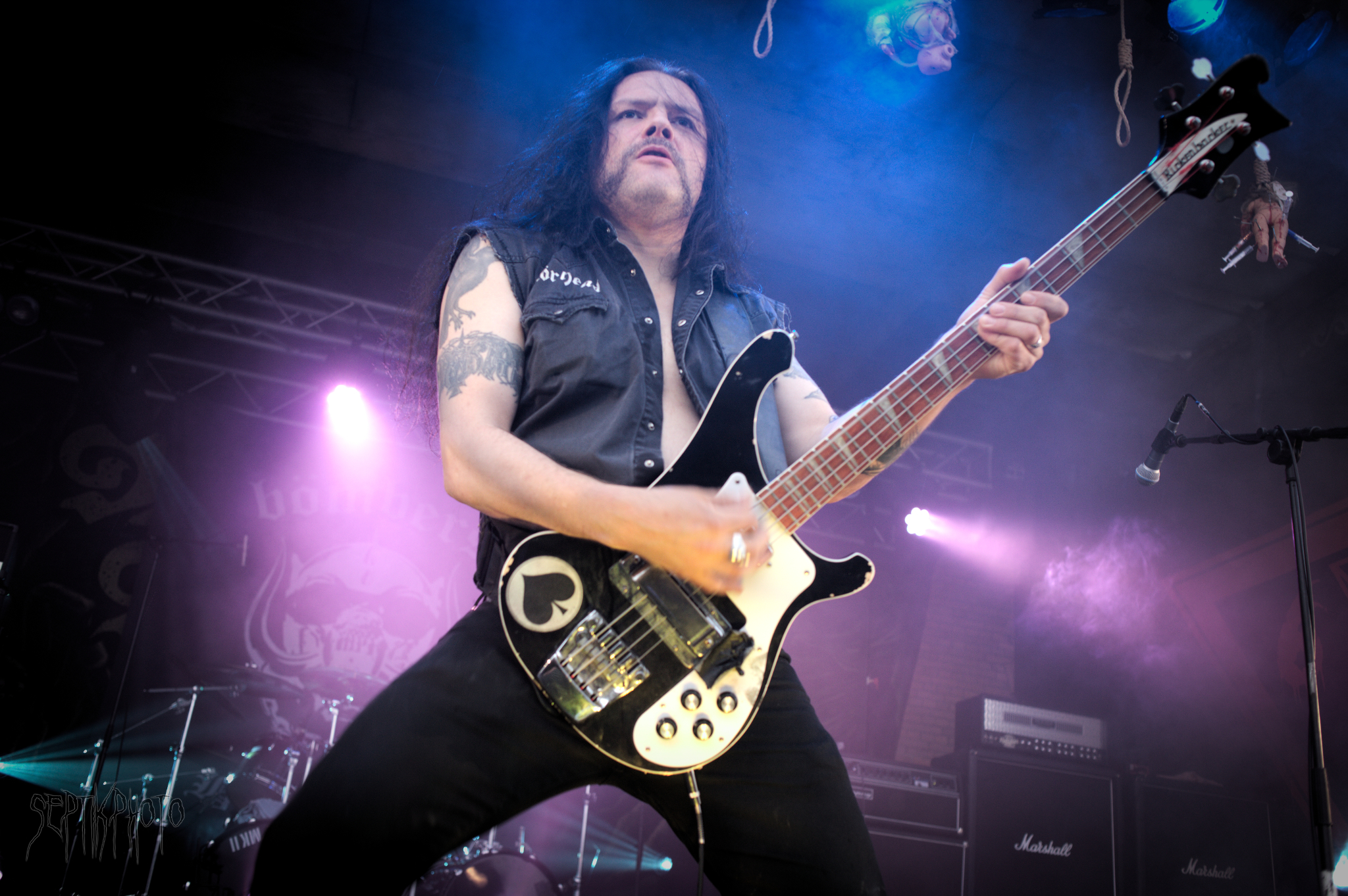 Abbath performing live with Bömbers.